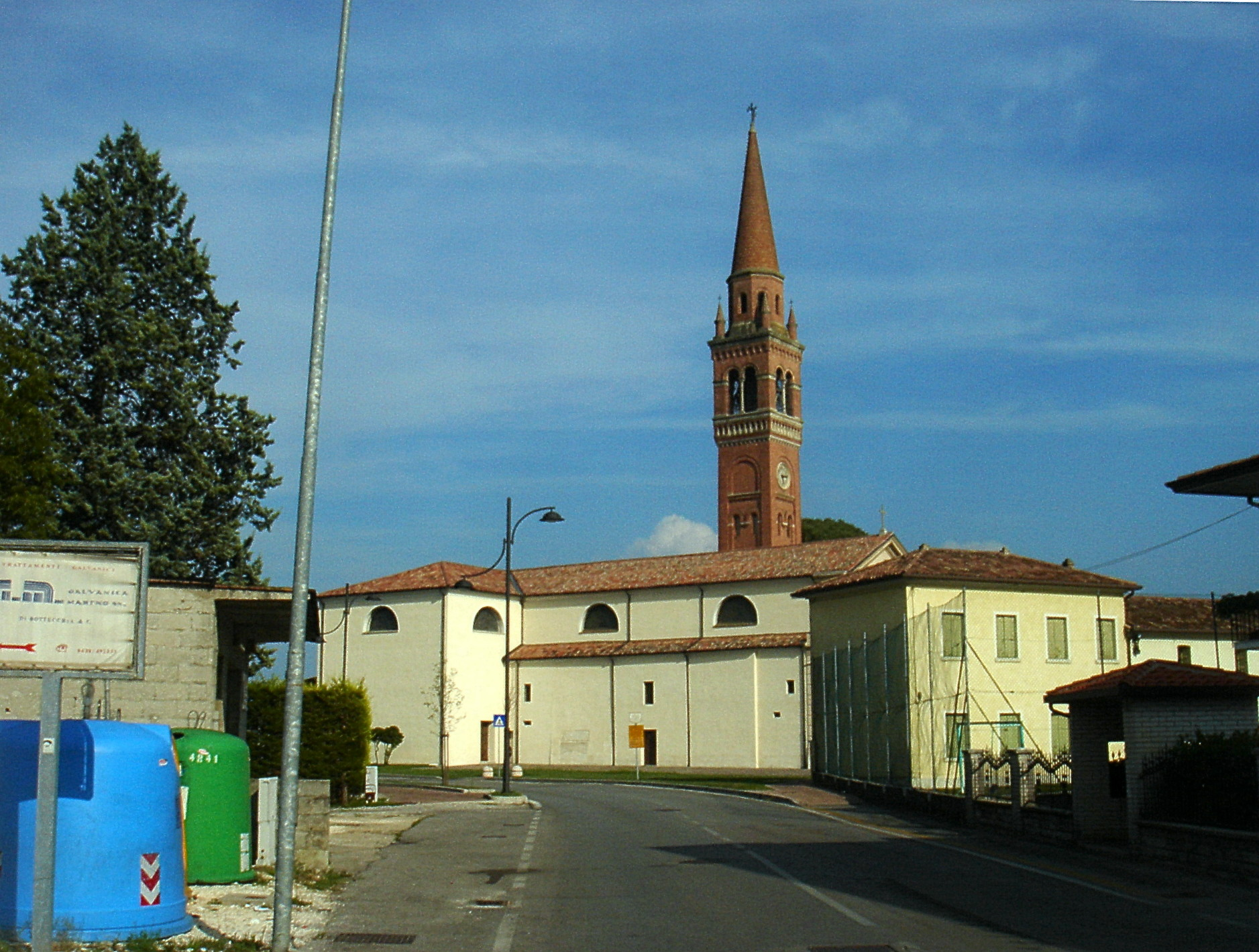 Mareno di Piave, Treviso, Italy: Church of Saints Peter and Paul.